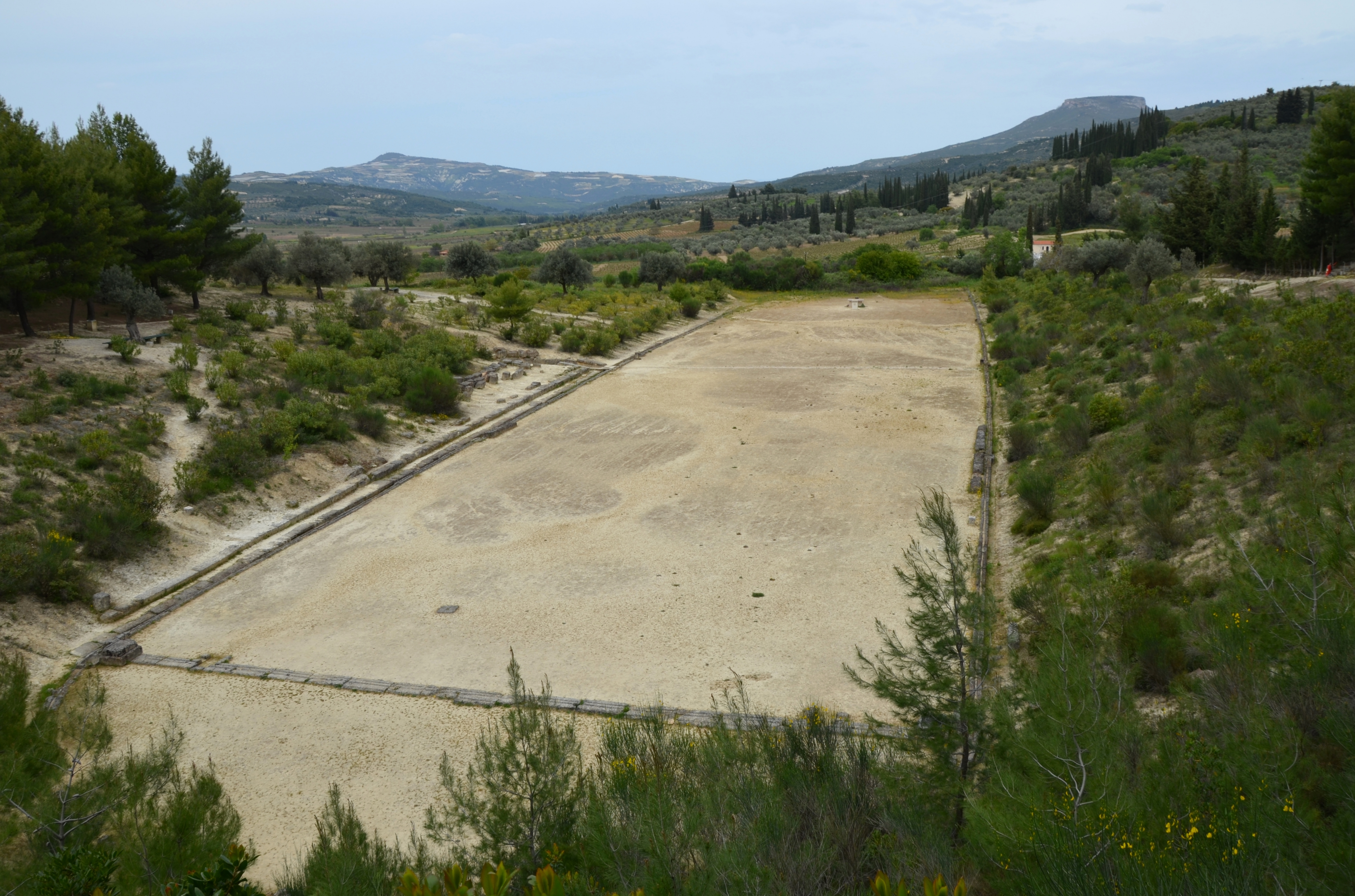 The Stadium of Nemea was constructed according to the whole reconstruction program of the wider area of Nemea, conceived by macedonian king Phillip II and his successors between 330 - 300 B.C. This is the place where the Nemean Games were held in honor of them mythological baby Opheltes. Participants and visitors flooded the area to attend the celebrations and games. The proccession arrived to the stadium from the Sanctuary of Zeus which was approximately 400 metres away. A large number of spectators were seated at the ancient stadium although limited stone seats existed along the west side of the track. The earth was so soft that it allowed the seats to be carved into the rock. Thus 40.000 people were accomodated within the stadium except for the north side, where no seating arrangements were ever made concidering the results of the excavation. To the southeast of the stadium the Hellanodikai were seated in a special section as to stand out from the rest of the attendants, watch the races unhindered and come to a judgment. The length of the track was 178 metres, its edges covered by a stone - water - channel with an addition of stone basins for drinking water and watering the terrain to keep dust on the ground, to facilitate the atletes' effort. Successful efforts resulted to a crown of celery placed on the athlete's head. The athletes, judges and trainers walked into the stadium after exiting the vaulted tunnel that communicated with the western side of the stadium area where the "Apodyteria" (changing room or locker room) were located. Although the tunnel was originally covered up in debris, the excavation brought to light the particularity of this vault which is the earliest of ancient Greece (320 B.C). Scratches against the wall are preserved, probably while the athletes waited to be called for. Source